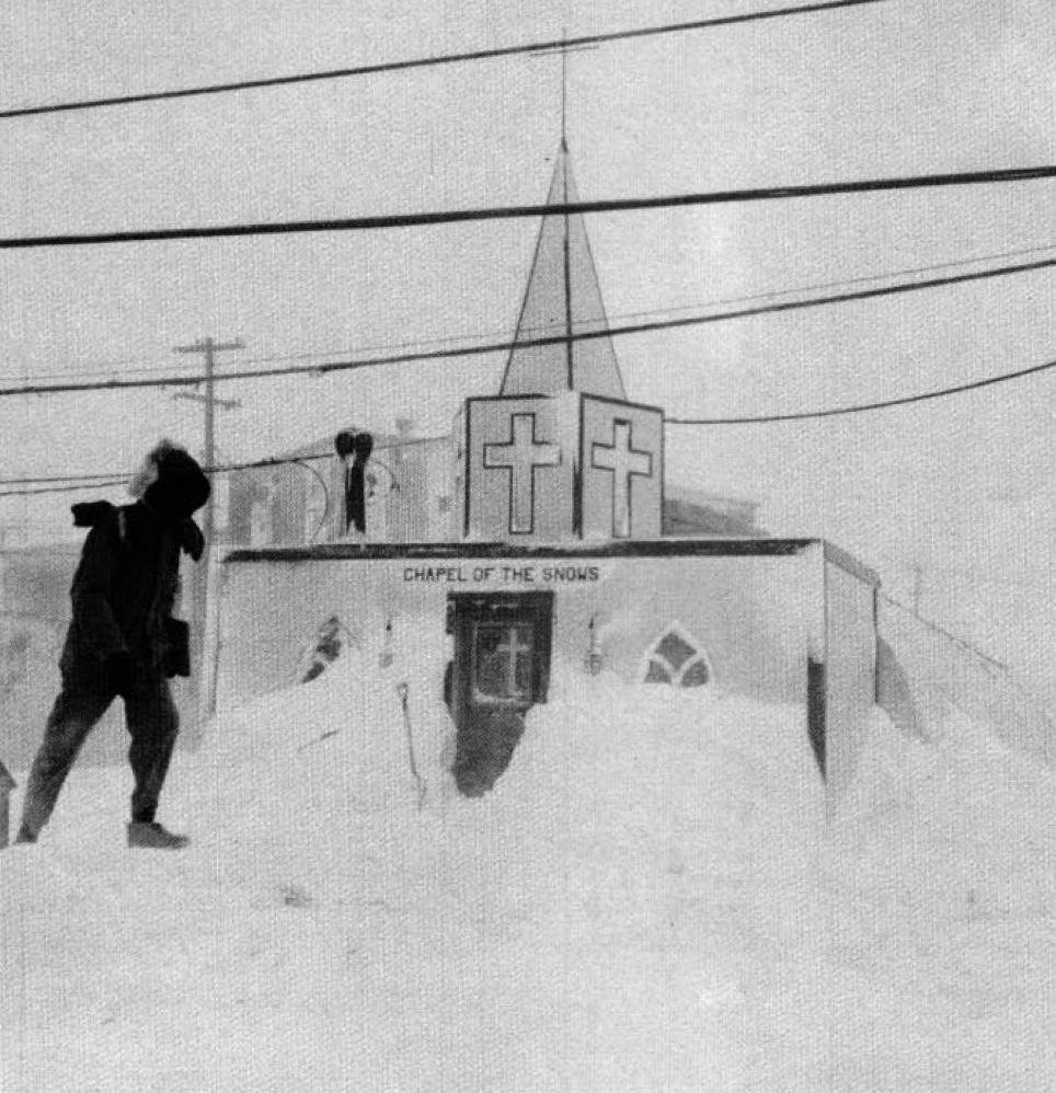 The "Chapel of the Snows" at McMurdo Station, Antarctica, circa 1975.